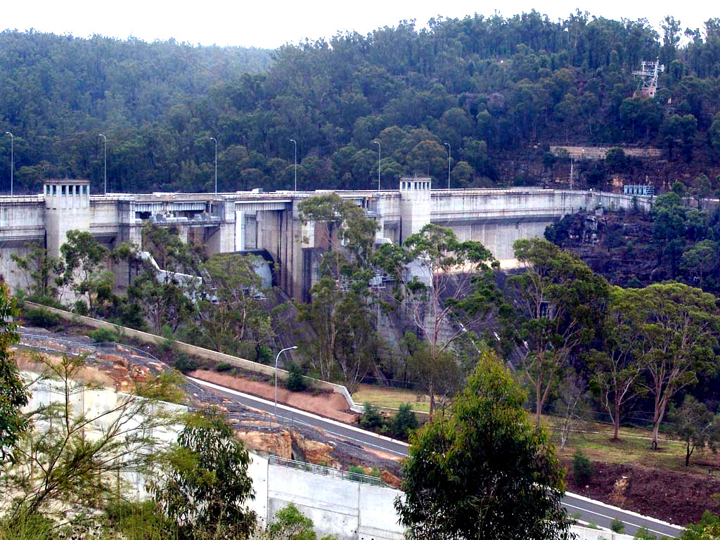 Warragamba Dam taken by Peter Bertok on the 25th of January 2004. Cropped and resized image from a Sony DSC-F828. F-Stop: f/4.0 ISO: 64 Focal Length: 23mm Uploaded for the Warragamba Dam article.